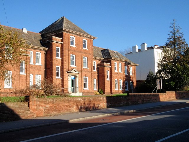 Hospital building, Heavitree Road, Exeter The building is part of the Royal Devon and Exeter NHS Foundation Trust Hospital, and forms part of the Peninsula Postgraduate Health Institute, providing a Clinical Skills Resource Centre.